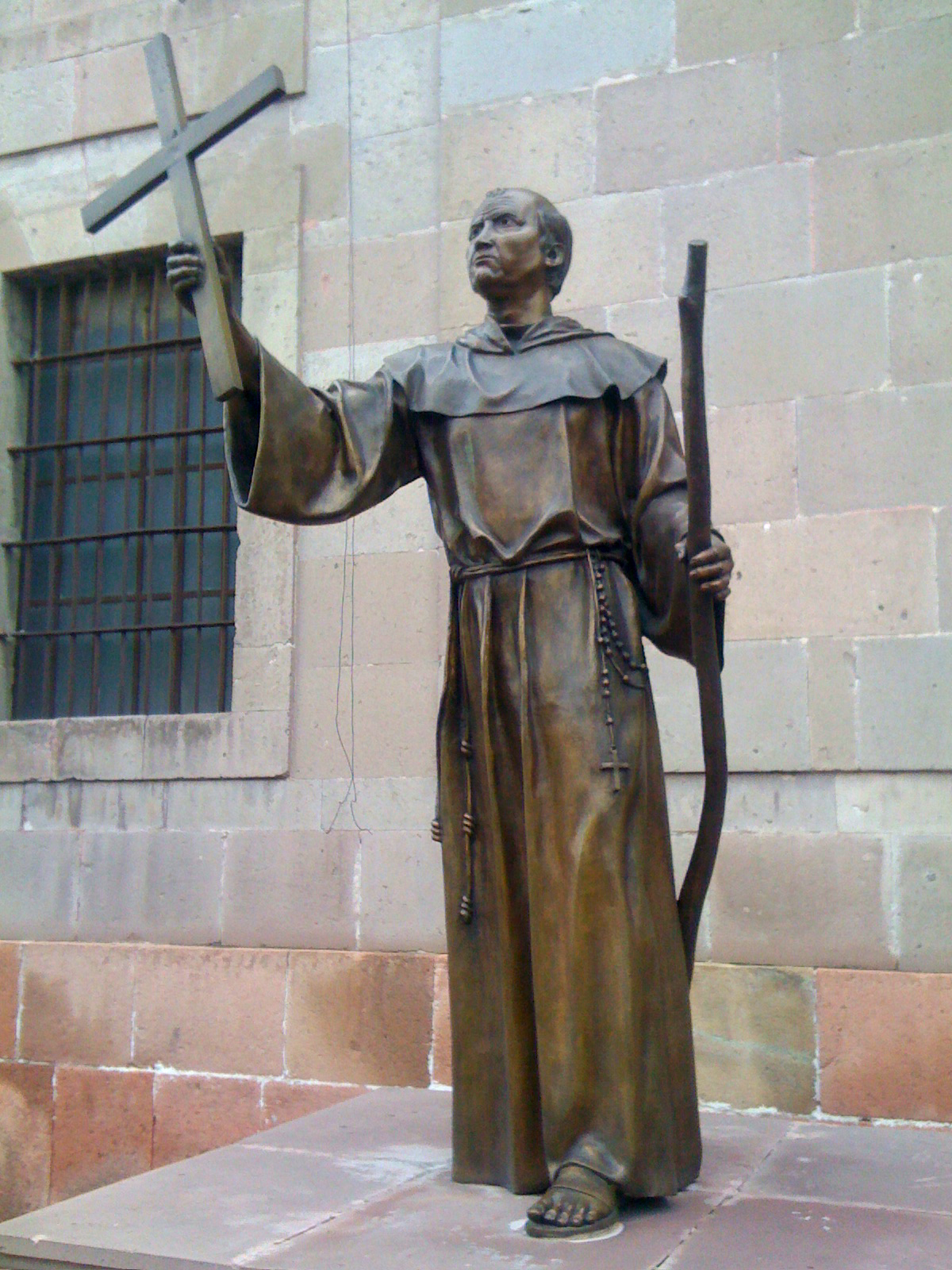 Full size bronze sculpture depicting Fray Junipero Serra, located on front of Queretaro's Diocesan Curia. Work released on September 17, 2015 by ILL CUBO CREATIONS.